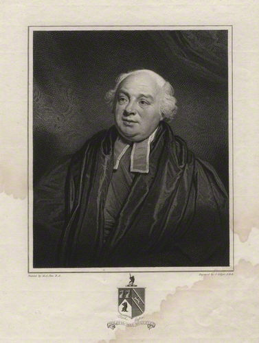 Portrait of William Tooke (1744–1820), English clergyman and historian of Russia.